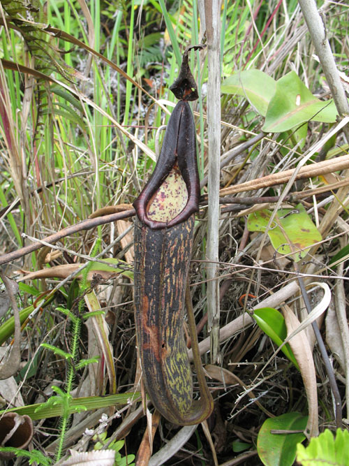 N.fusca (Kinabalu)